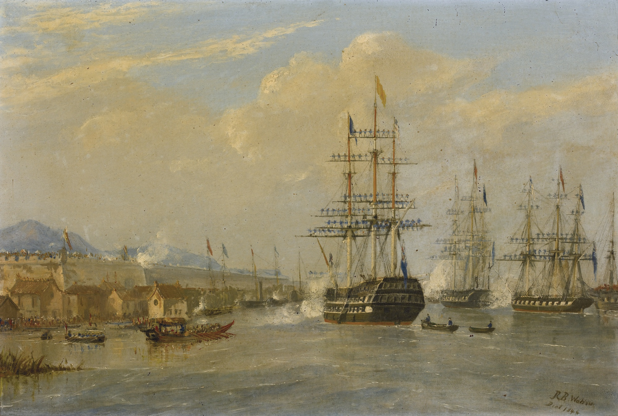 HMS Cornwallis and the British squadron under the walls of Nanking, saluting the peace treaty.